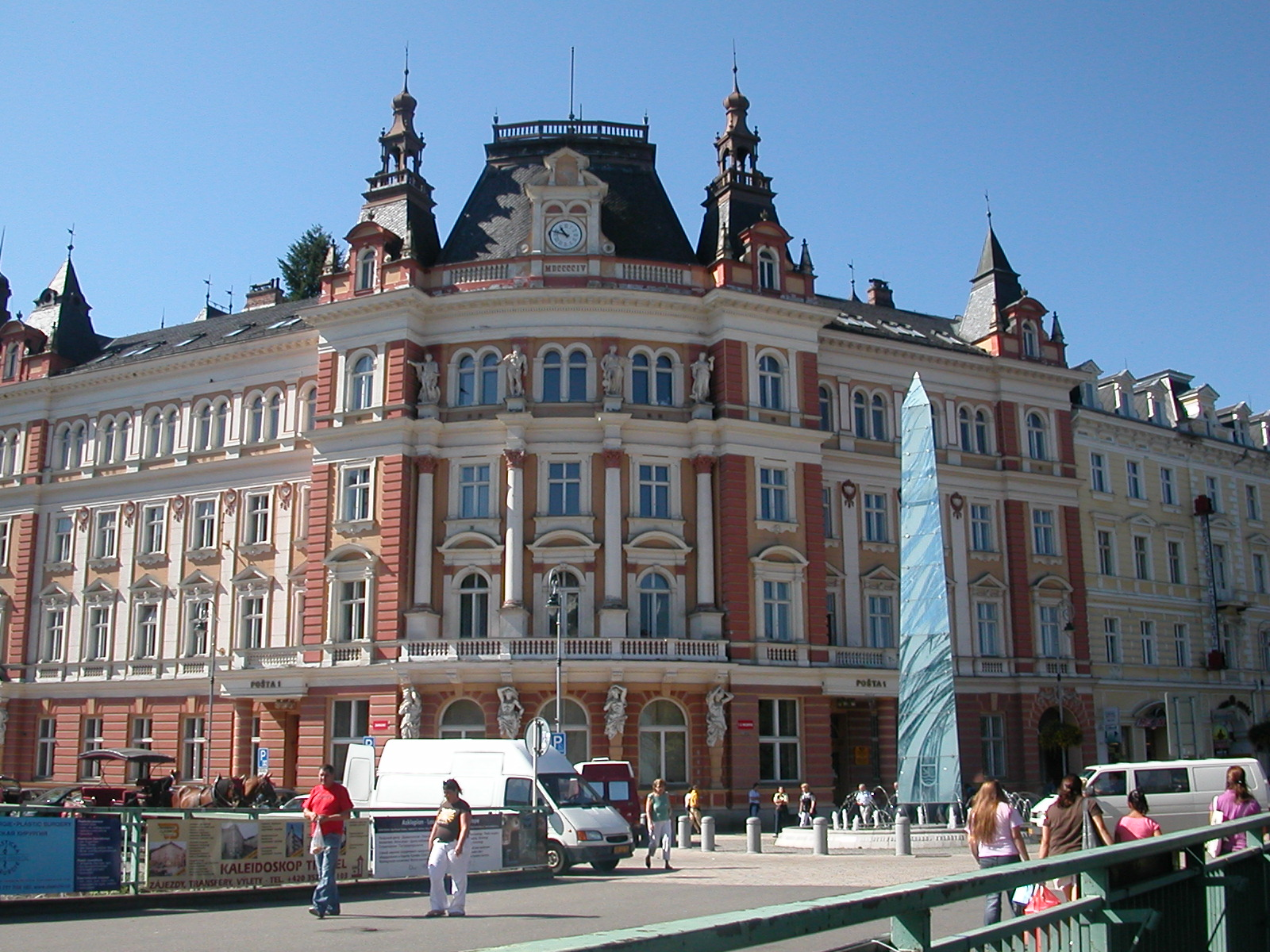 Post office in Karlovy Vary